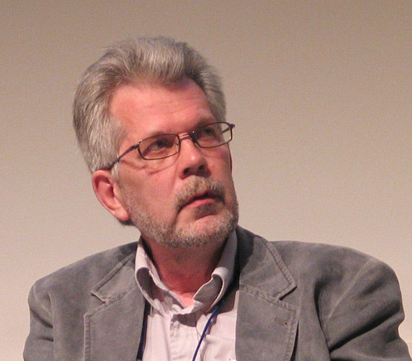 Finnish poet Leevi Lehto at Writers' and Literary Translators' International Conference (Stockholm, June 30, 2008)